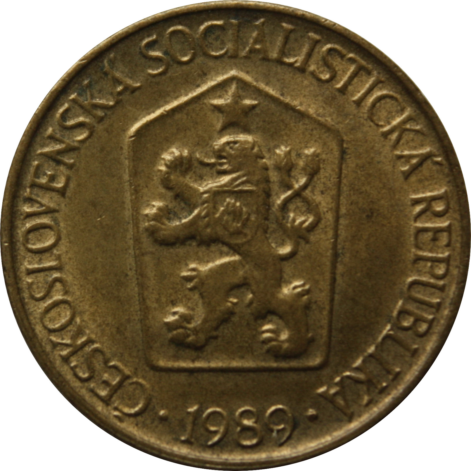 1 Czech crown (Kčs) -obverse